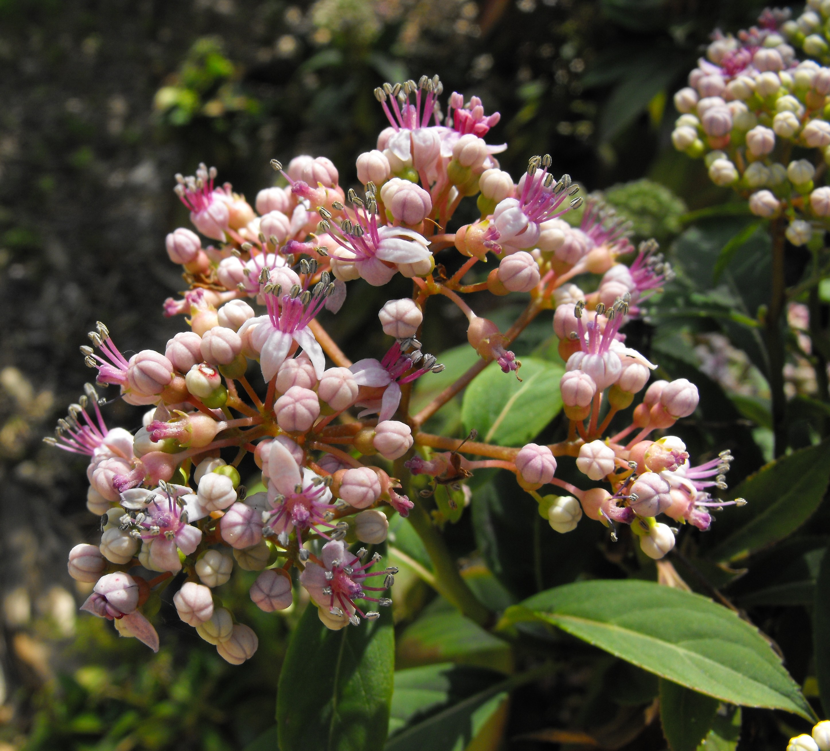 Dichroa versicolor at Quail Botanical Gardens in Encinitas, California, USA.